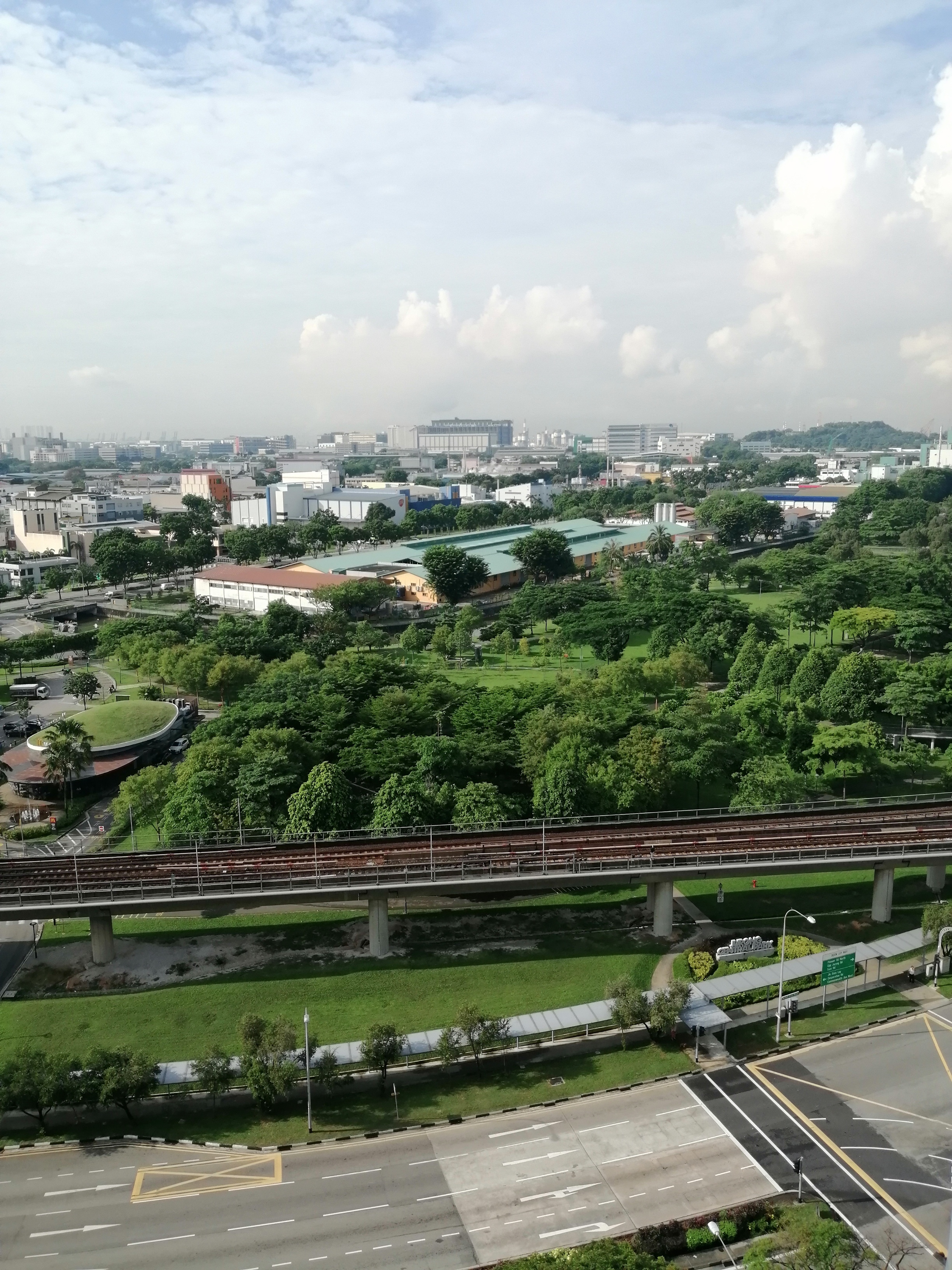 Jurong Central Park.